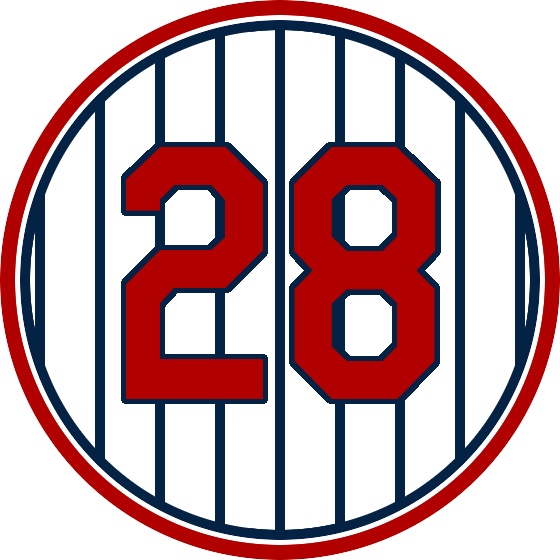 Minnesota Twins 28, representing Bert Blyleven's retired number sign at Target Field.